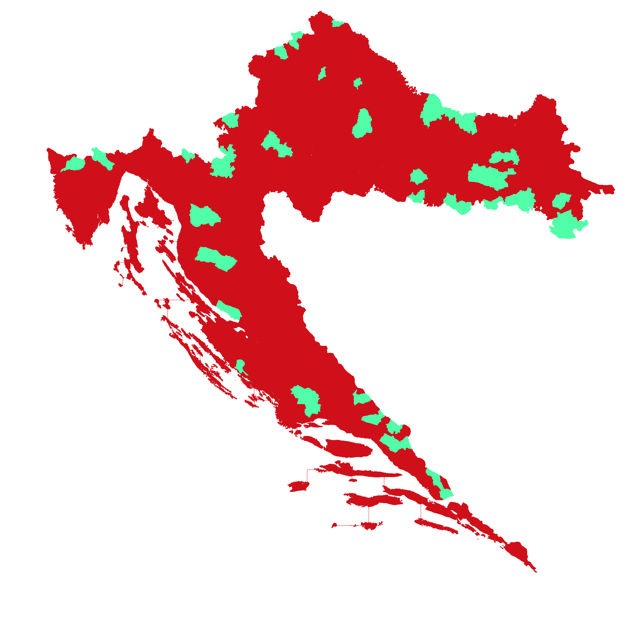 Third category of the Areas of Special State Concern in Croatia. Derivative work of the File:Croatia map municipalities.png.